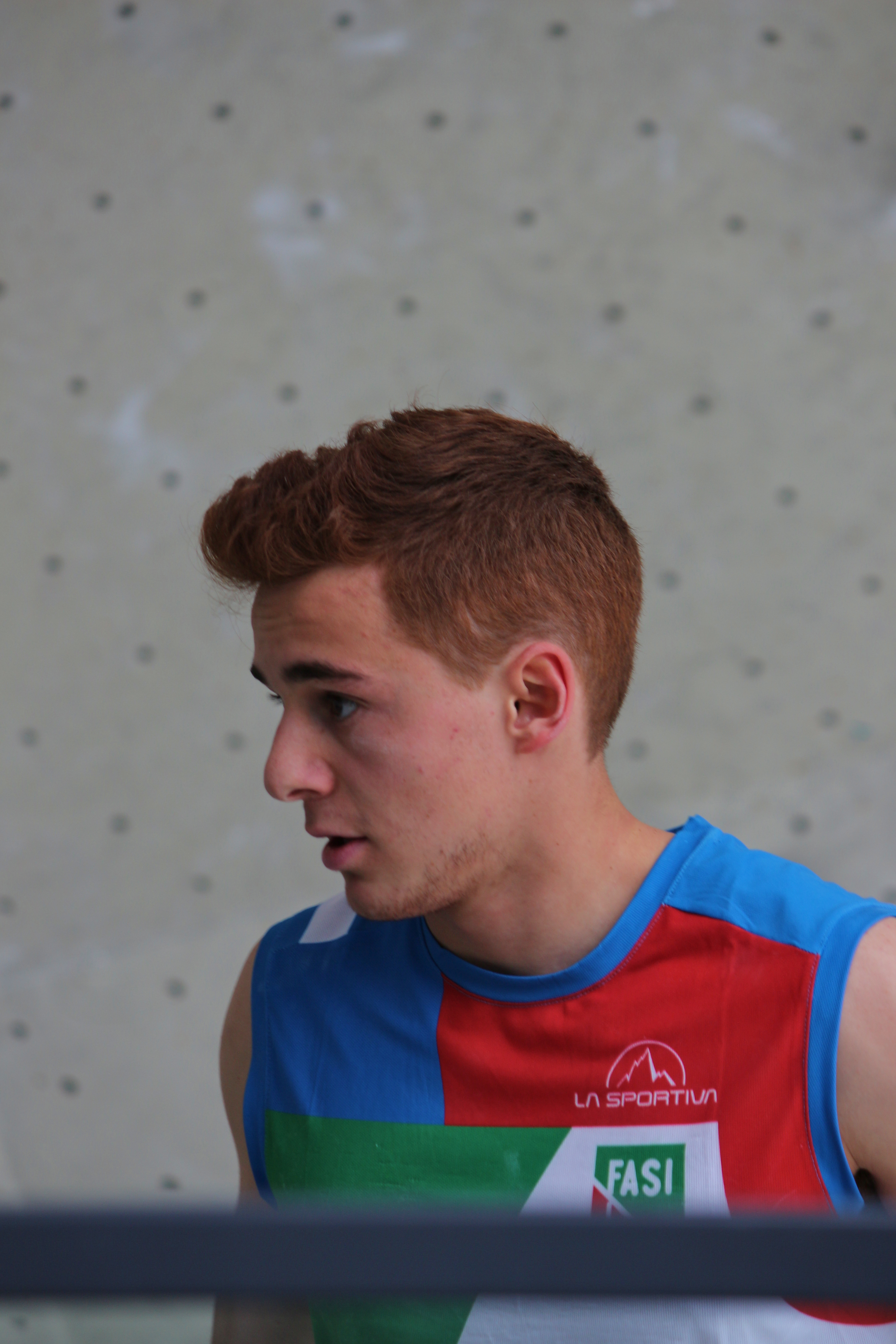 Filip Schenk